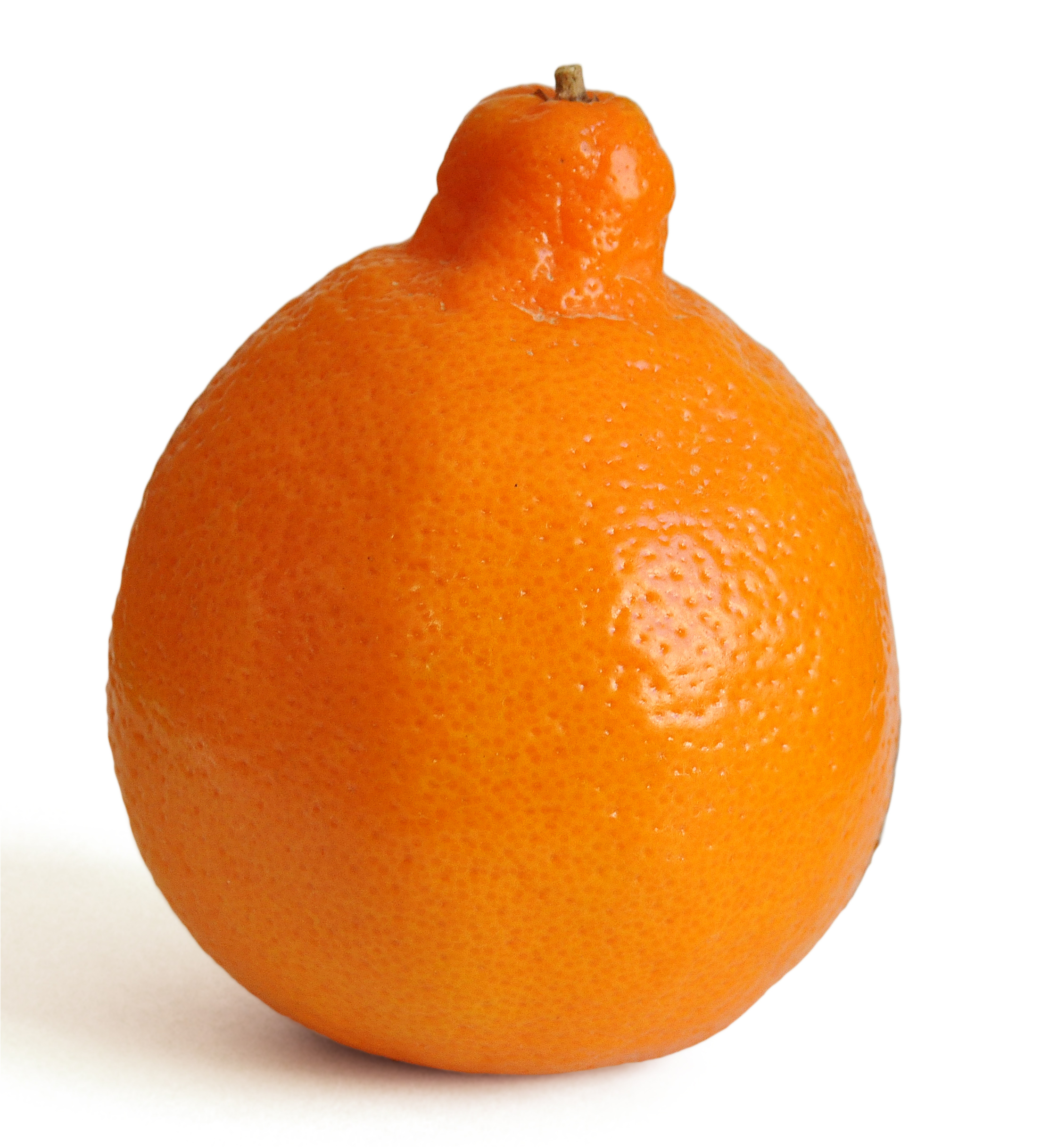 Minneola is a cross breed between manderins and grapefruits.